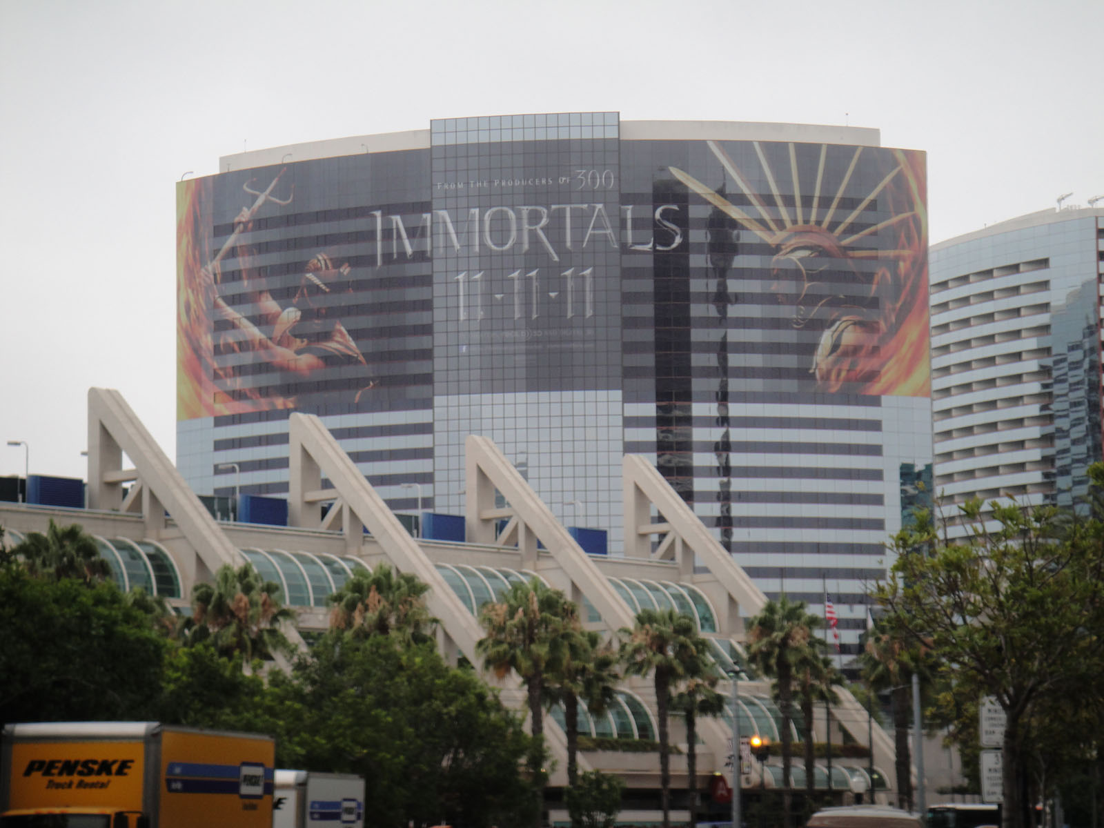 San Diego Comic-Con 2011 - Immortals ad on the Marriott Marquis and Marina